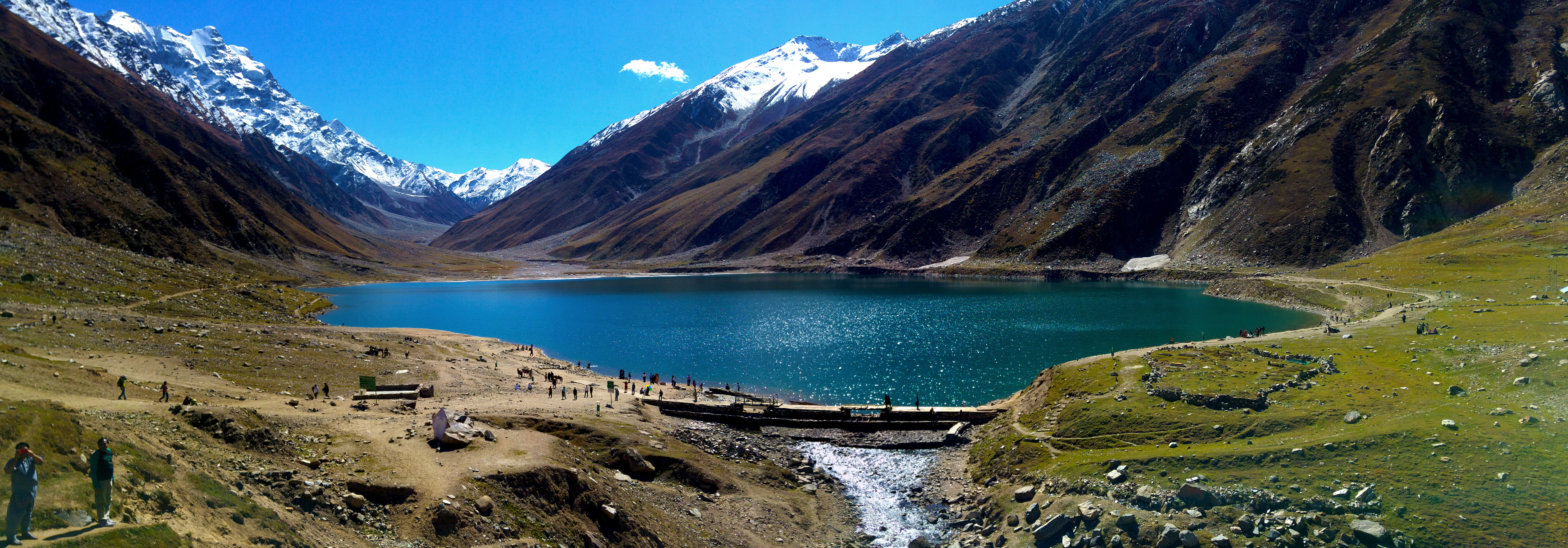 This is the marvelous lake saiful malook in Naran. the picture is taken in september 2015.